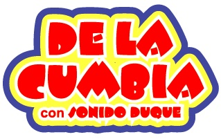 De La Cumbia's Logo